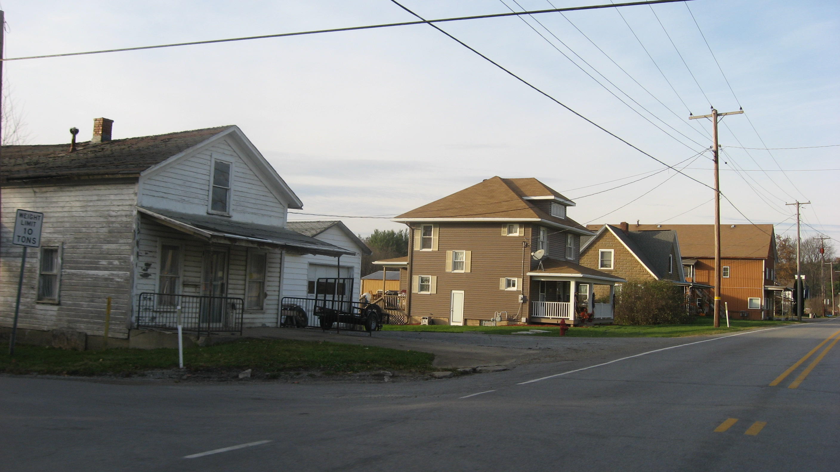 Buildings on the western side of Pennsylvania Route 36, seen looking north from the Arnold Avenue intersection, in Tylersburg, Pennsylvania, United States.